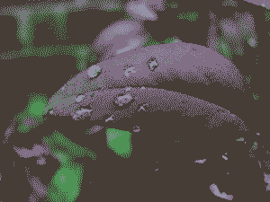 Illustration at 2 bits. [In case anyone's curious, the 4 colors are (70,61,55), (79,146,85), (129,111,134) & (149,146,166)]